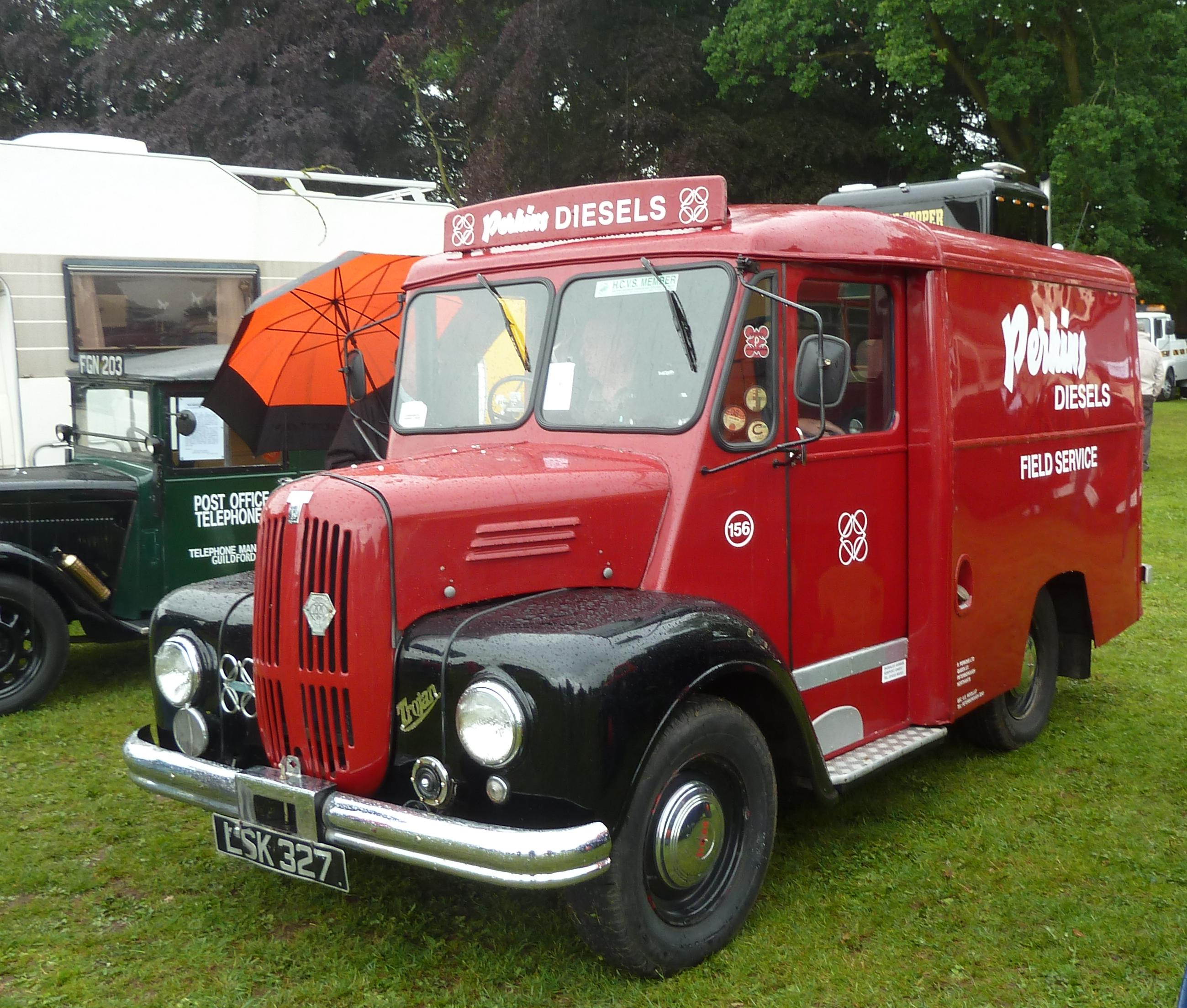 Trojan van Series 7 van, late 1950s. These vans were fitted with Perkins diesel engines, rather than the famous pre-war Trojan two-stroke petrol engine. This one was also used by Perkins, partly for its promotional value. Abergavenny steam rally, 2011.